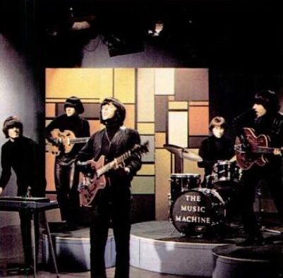 Trade ad for The Music Machine's single "The People in Me".To better adapt it to his respective Wikipedia article, the ad was cropped and cleaned in a graphics editing program. The original can be viewed at the source below.